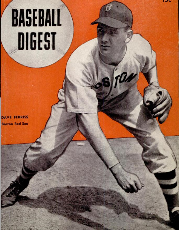 An image of Major League Baseball pitcher Dave Ferriss.